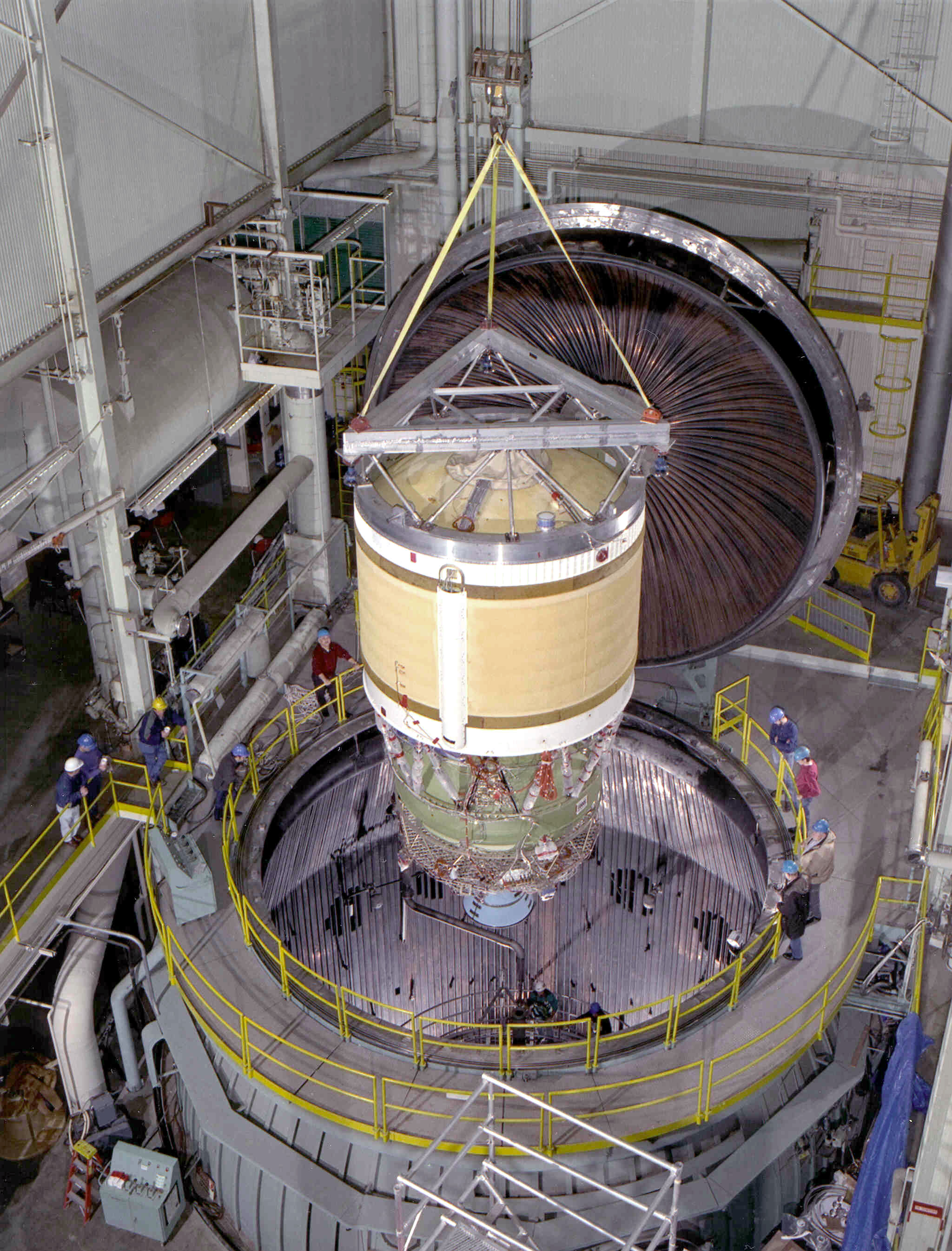 Contractors and NASA personnel lower a Delta III B-2 rocket into a test chamber at NASA's Plum Brook Station located at the Lewis Research Center, now John H. Glenn Research Center at Lewis Field.